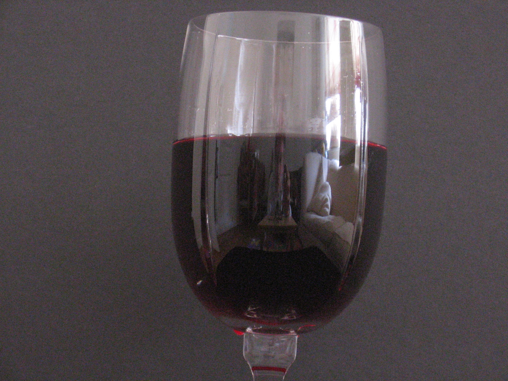 MiWadi, a cordial soft drink was poured into a wine glass.